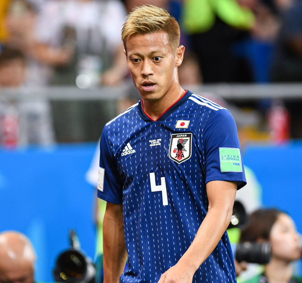 Honda at the 2018 FIFA World Cup